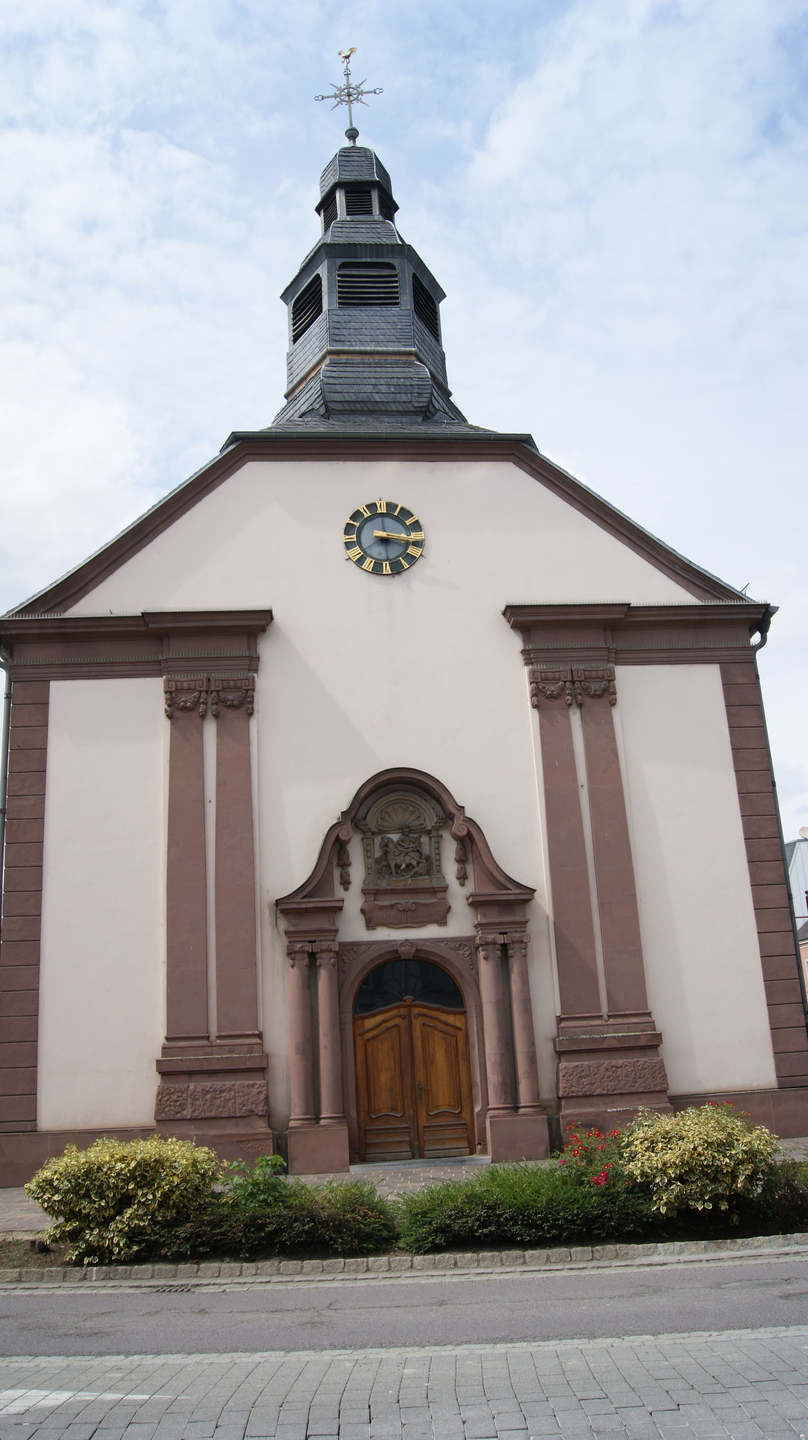 Church of Saint Martin in Wasserbillig (luxembourgish: "Waasserbëlleg") in the municipality Mertert, canton Grevenmacher in the Grand Duchy of Luxembourg.